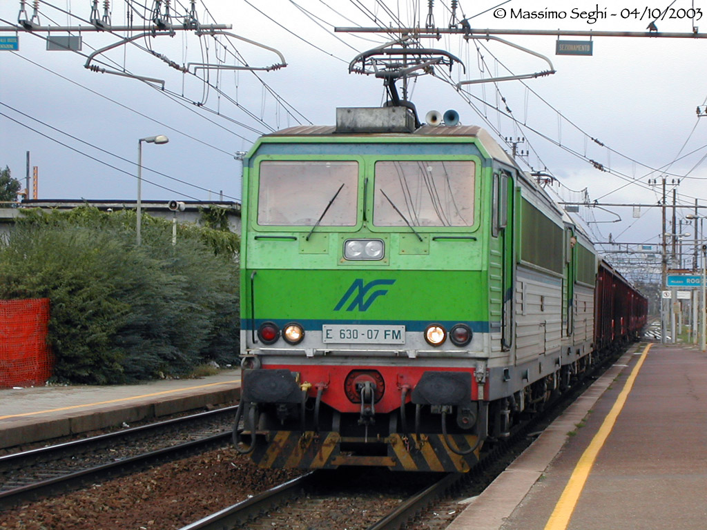 Locomotive Class E 630-07 at Milano Rogoredo train station in Italy